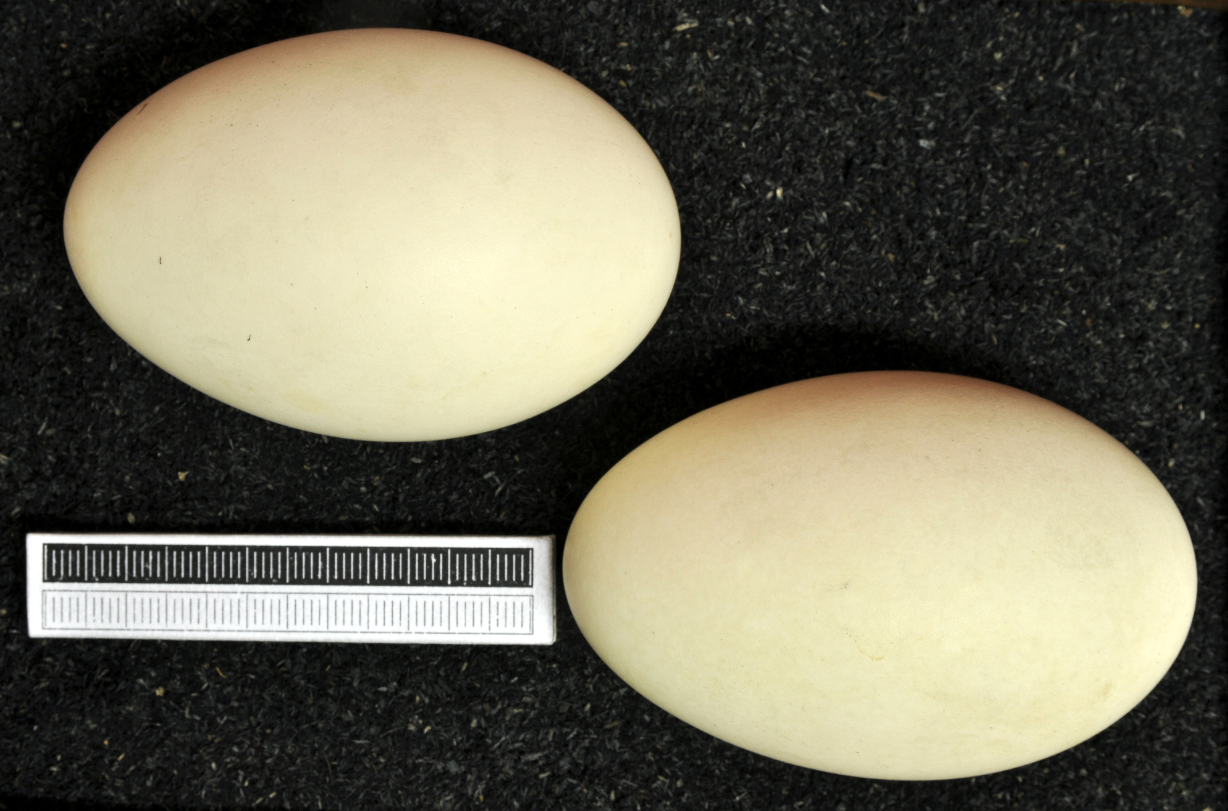 Lesser white-fronted goose Anser erythropus , egg, Coll. Museum Wiesbaden